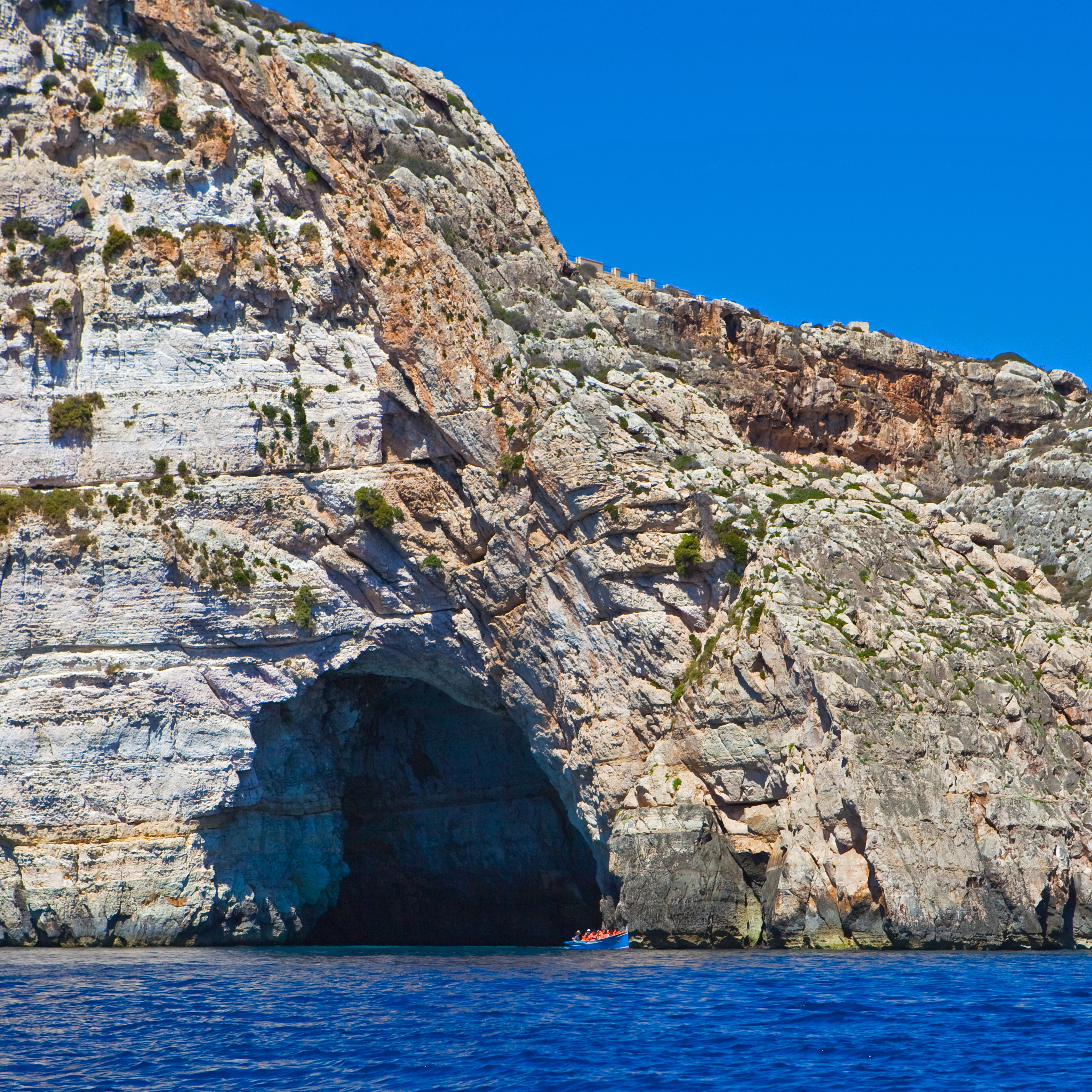 The Blue Grotto in Malta seen from the sea